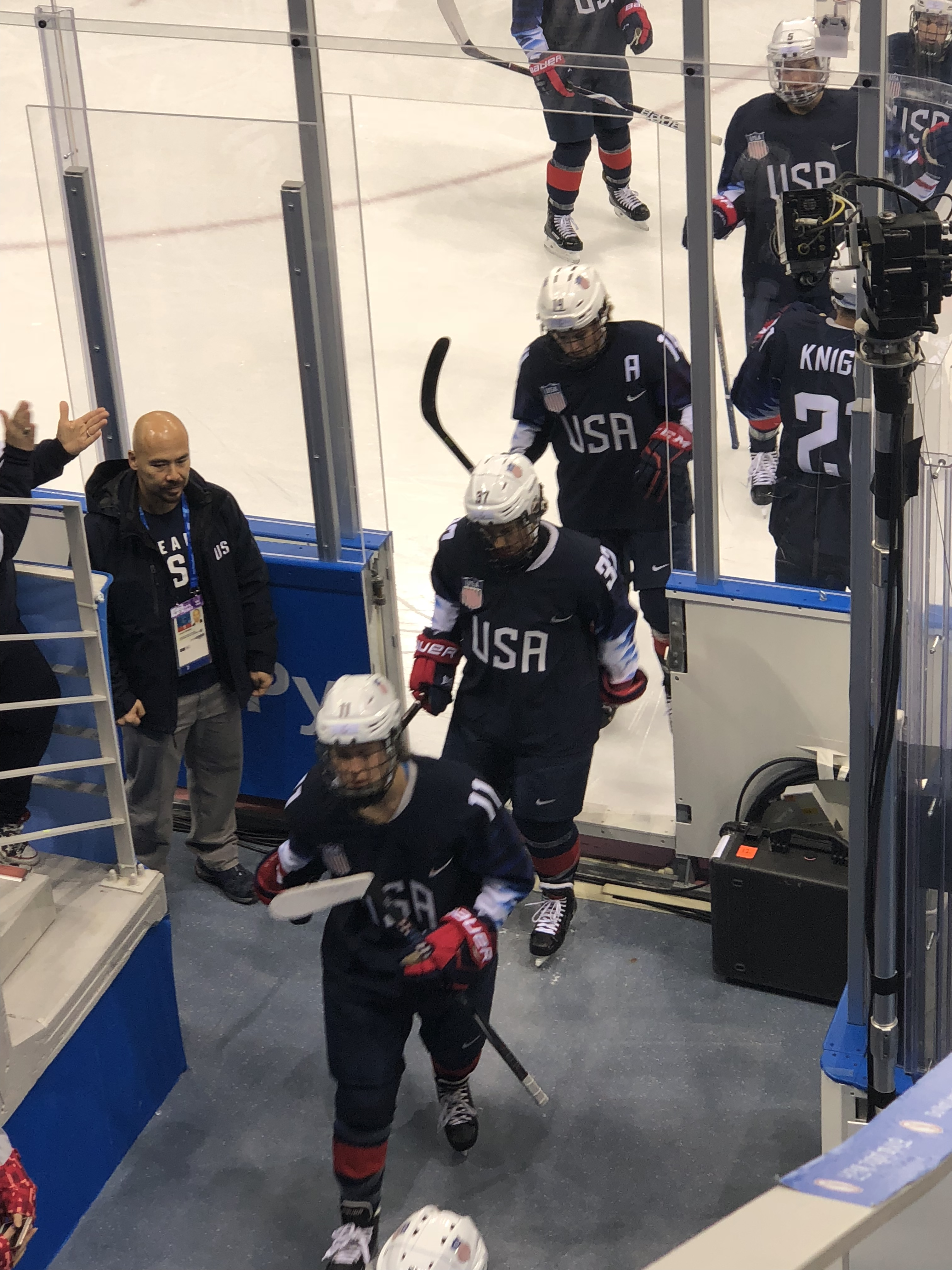 A DSS special agent (left) keeps watch as Team USA’s Women’s Hockey Team exits the ice after winning their semifinals match against Finland, February 18, 2018. During the Olympics, with host-nation approval, the Diplomatic Security Service (DSS) deployed Field Liaison Officers, like the officer here, to designated venues to liaise with the venue security and Team USA. The DSS Office of Protection, Major Events Coordination Unit is responsible for long-range security planning for U.S. participation in international events and for domestic events with significant international participation, like the Olympic Games. In the years leading up the event, DSS personnel liaise with host-nation security and law-enforcement officials to coordinate the safety and security of U.S. citizens, athletes from Team USA, American corporate sponsors, and members of the U.S. media during the Olympic Games. For more information about how DSS supports the Olympics and other major events, visit the webpage at